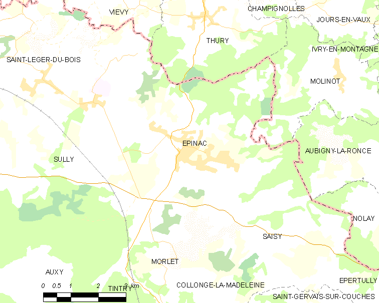 Map of French municipality